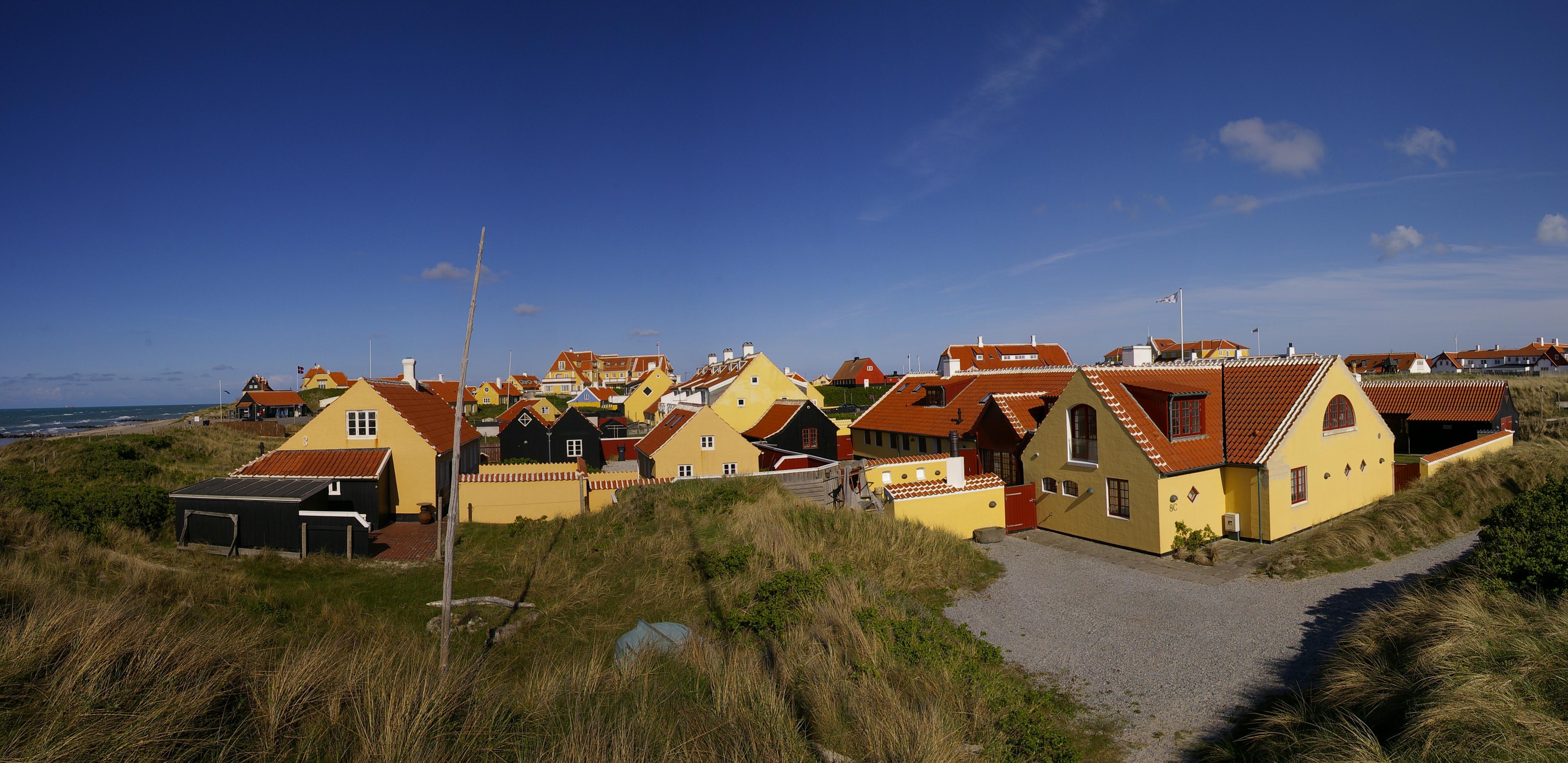 Old Skagen in the north of Denmark